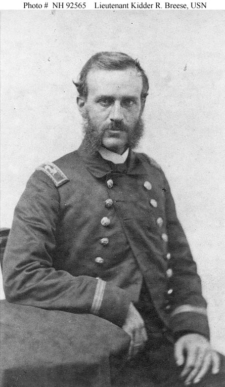 Image taken from the US Navy historical image library (